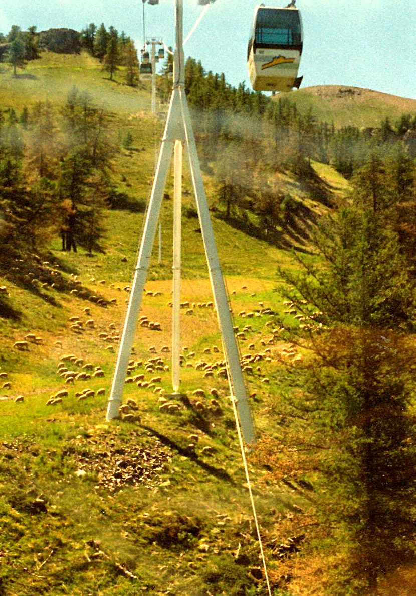 The 'Prorel Cable Car' near Briancon, France. July 1996.